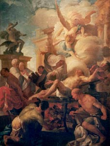 Painting by Vincent Cannizzaro of Reggio Calabria